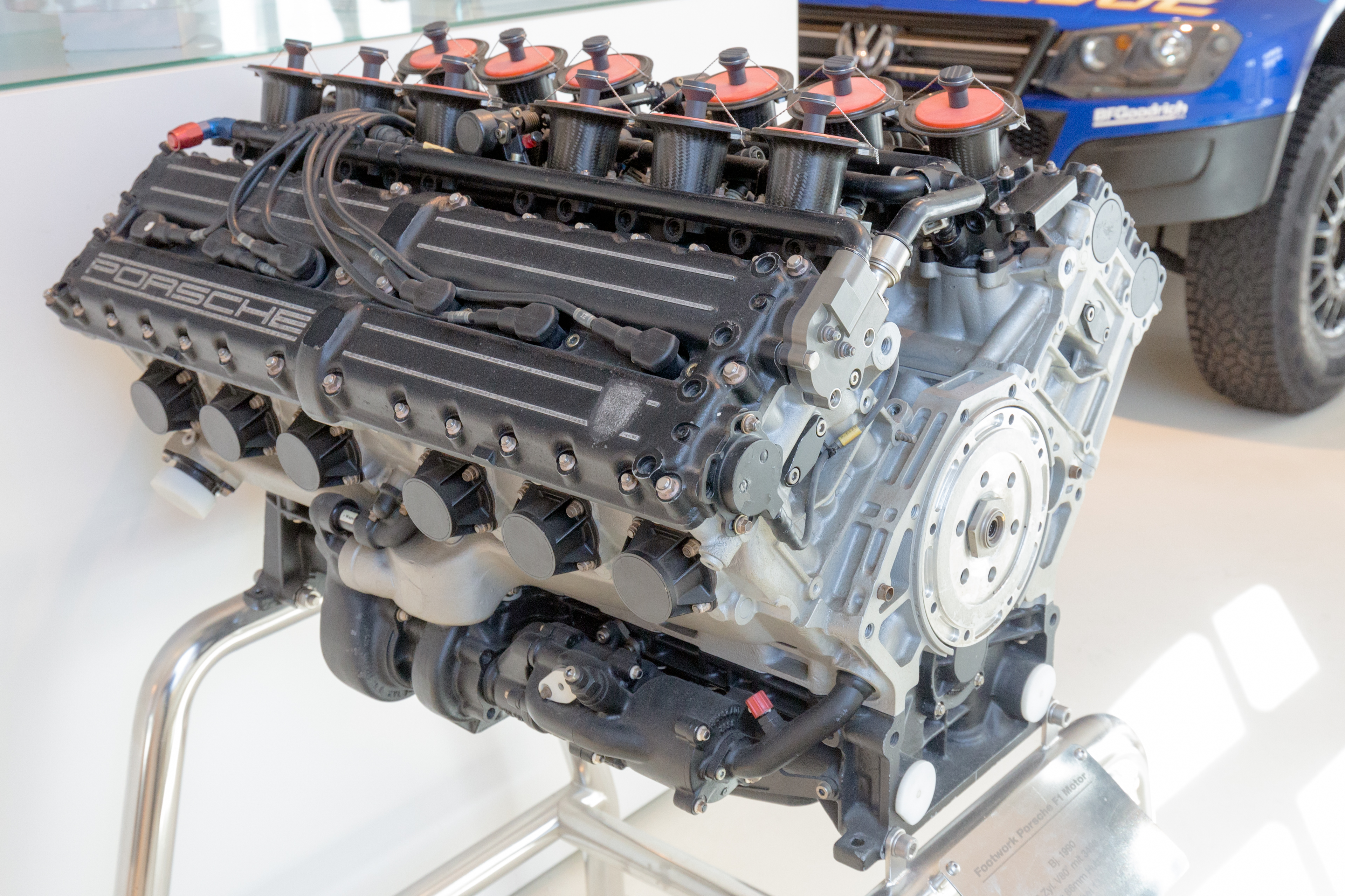 Prototyp Museum: Porsche 3512 engine